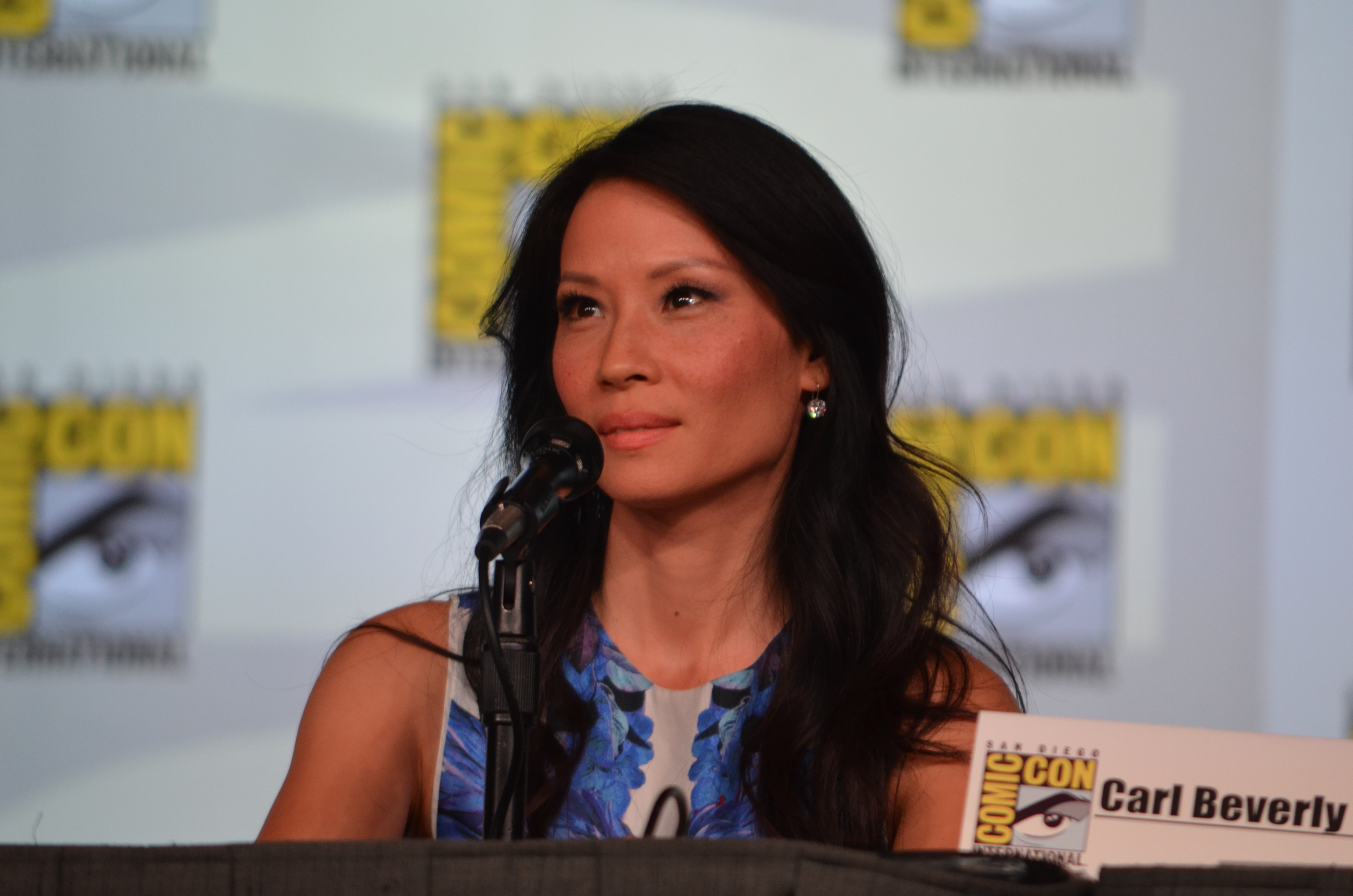 Lucy Liu at Elementary panel at 2012 Comic-Con